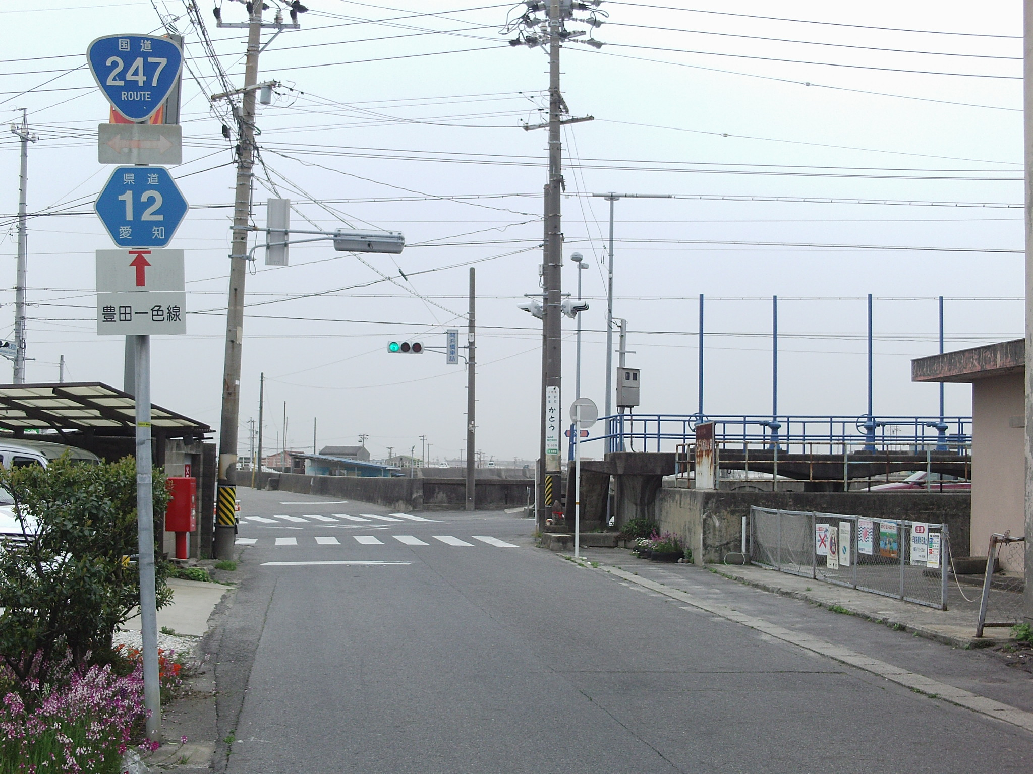 Aichi prefectural road No.12 in Isshikicho Isshiki, Nishio, Aichi.